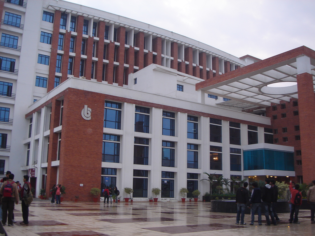 Gaurav Tower Bansal Classes, Kota